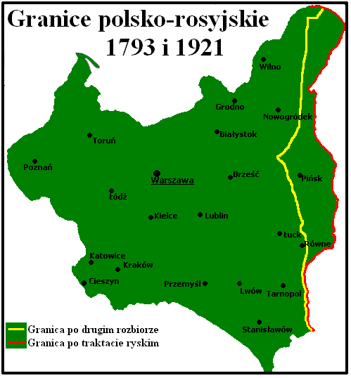 Comparison of Polish eastern borders from the years 1793 (Second Partition) and 1921